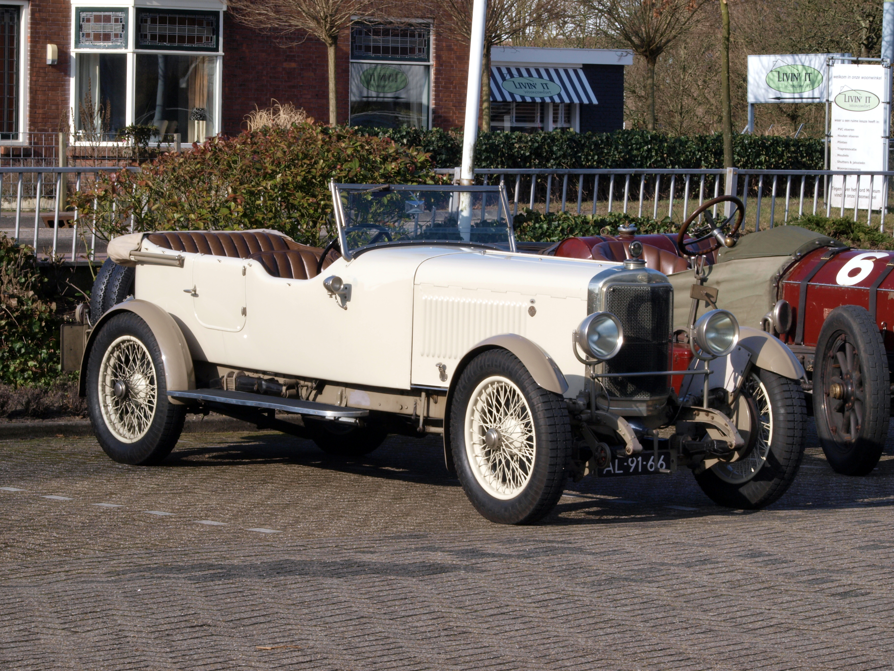 1926 Sunbeam 3.0-Litre Super Sports ‘Twin Cam’ Tourer engine 4070F 6 cylinders, 2916 cc chassis 4062F source Photographed in front of the Den Hartogh Ford Museum. OLYMPUS DIGITAL CAMERA